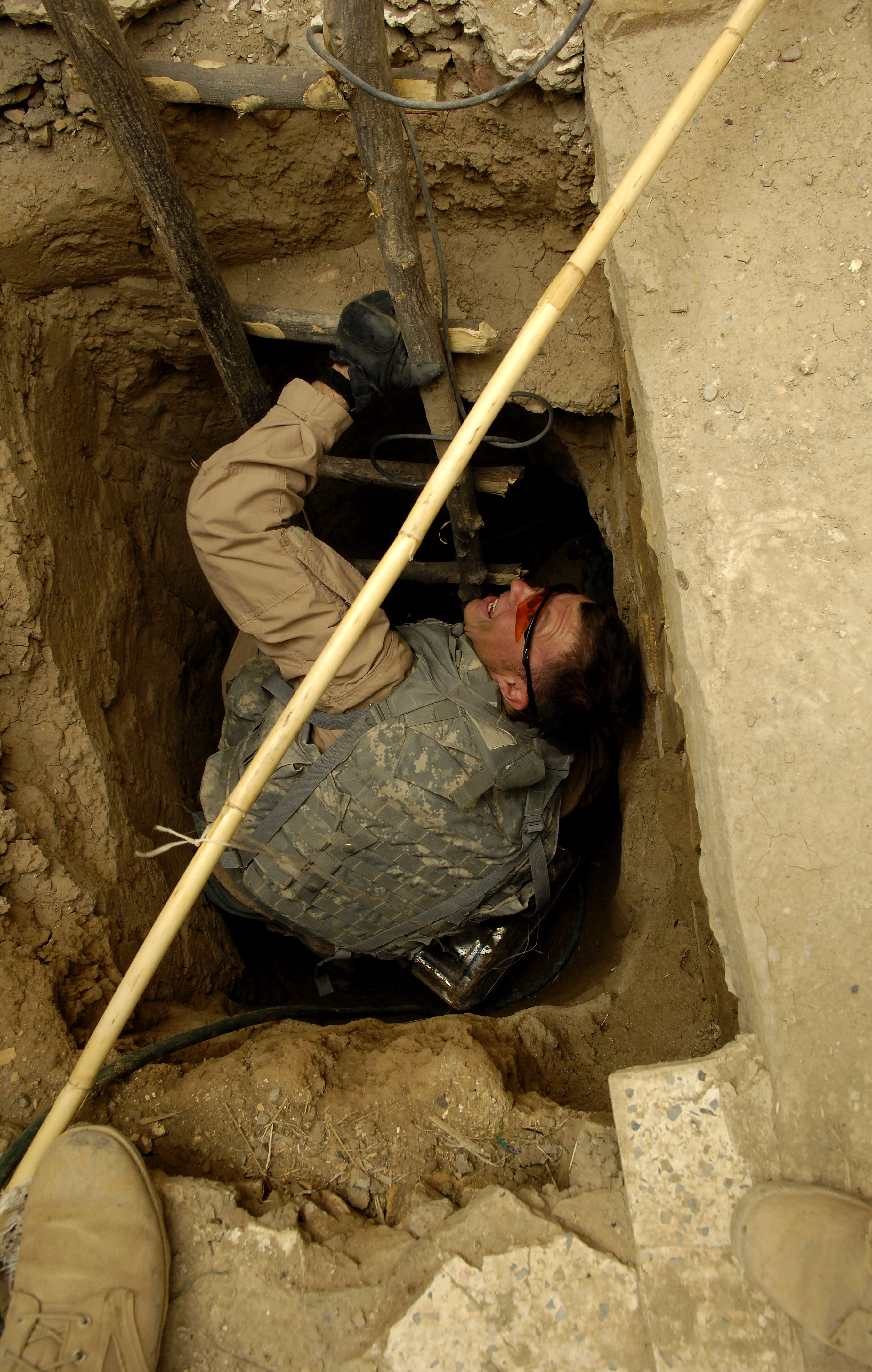 U.S. Army Staff Sgt. Jeriah McAvin searches a spider hole for weapon and insurgents during an operation in Qubbah, Iraq, March 24, 2007. McAvin is assigned to Charlie Troop, 82nd Airborne Division, out of Fort Bragg, N.C.